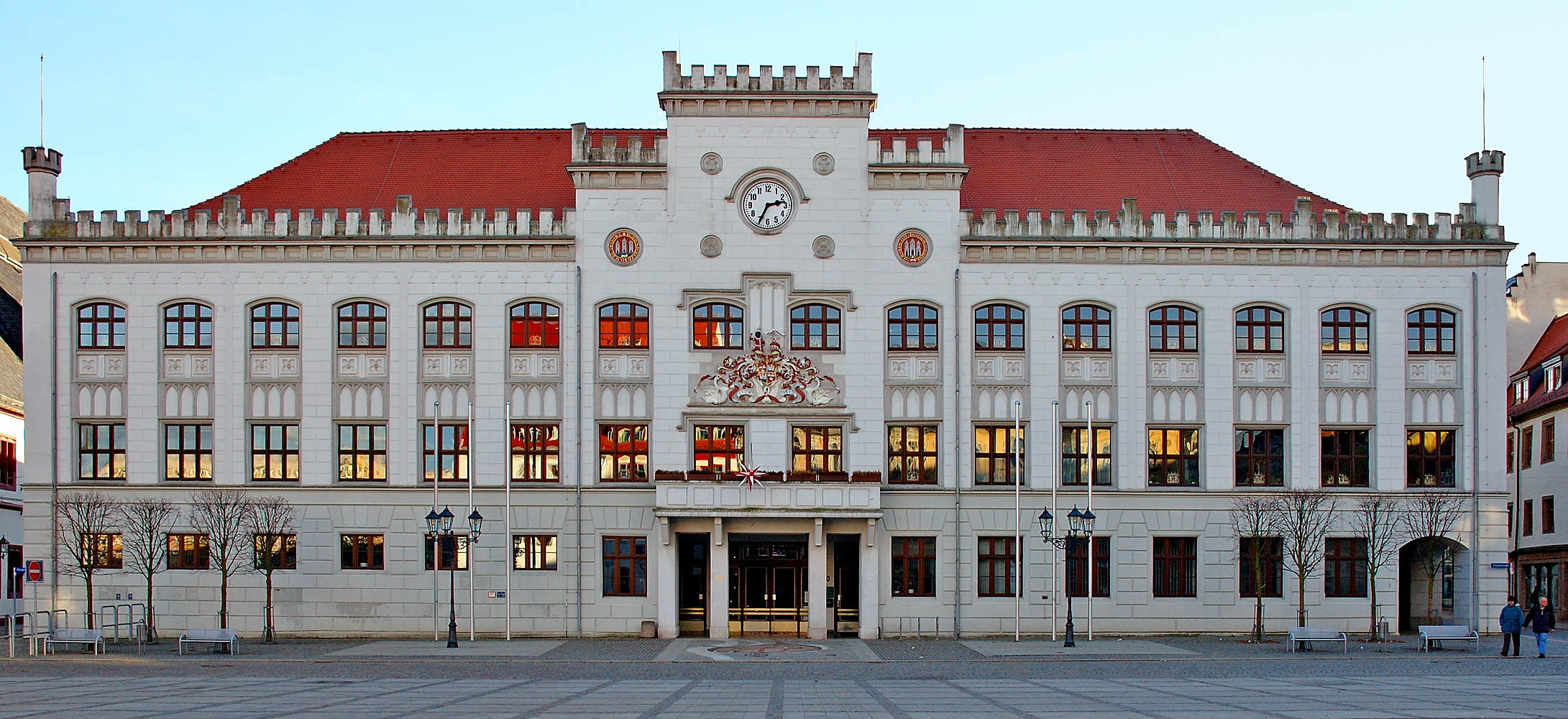 This image shows the townhall (Rathaus) of Zwickau located on the main market which has been built after a big town blaze in 1403. Above the main entrance you can see the city arms of Zwickau.